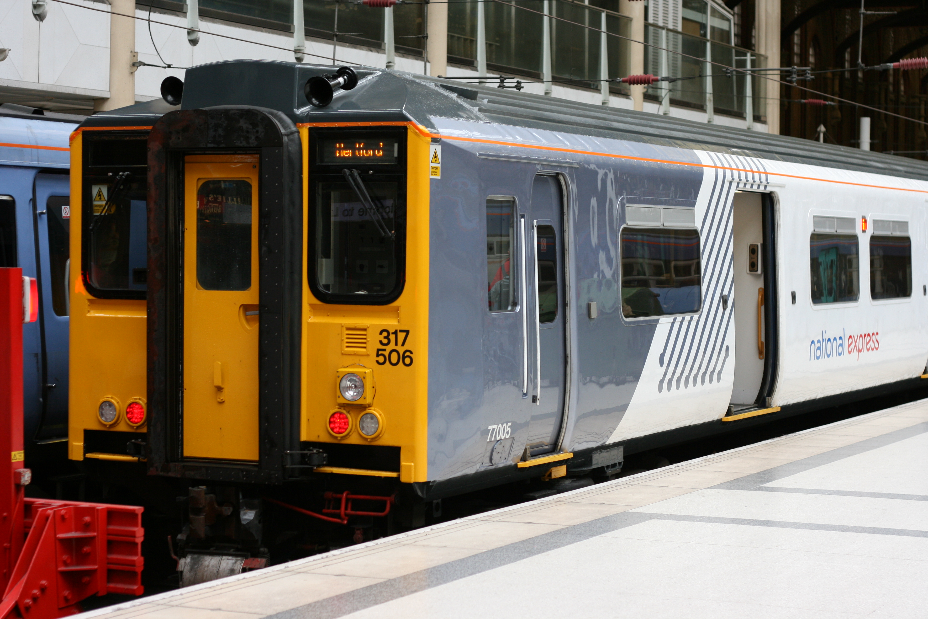 National Express East Anglia British Rail Class 317 number 317506 at Liverpool Street station